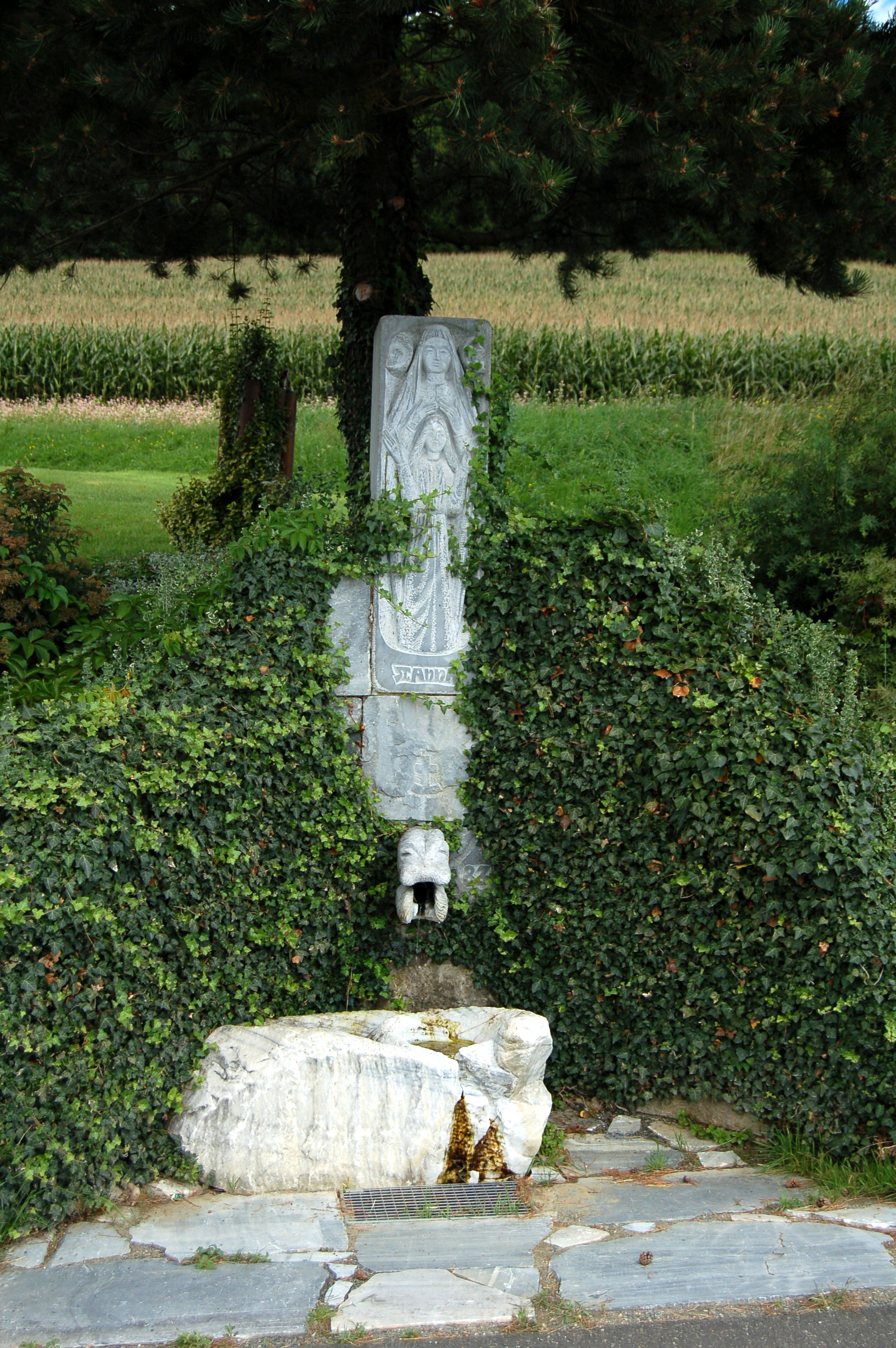 Annabründl, a well near to the pilgrimage church St. Anna, on the slopes of Masenbergs in the village Flattendorf, municipality Hartberg Umgebung, Styria, Austria.